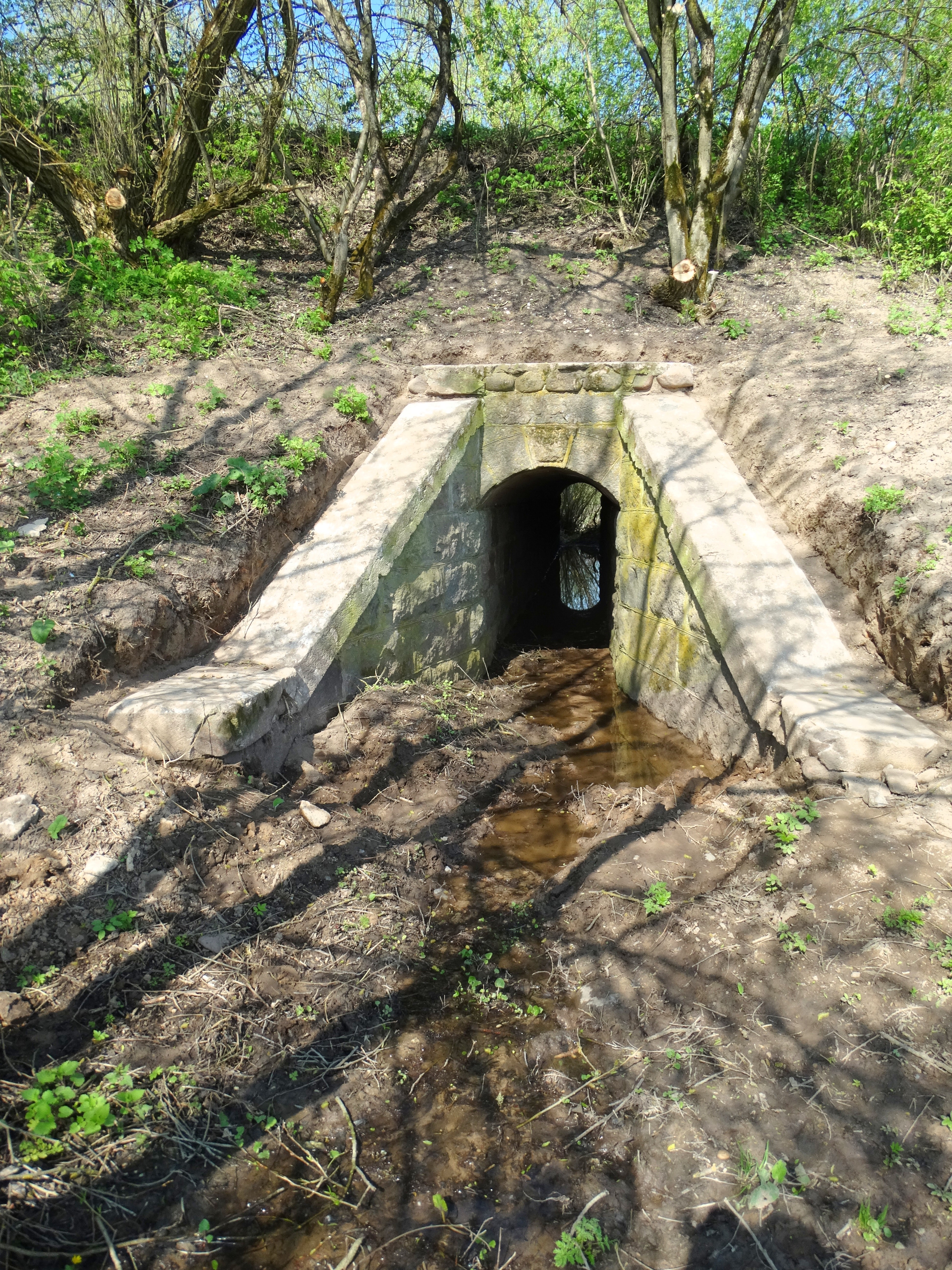 Culvert in Budeliai, Kaišiadorys district, Lithuania